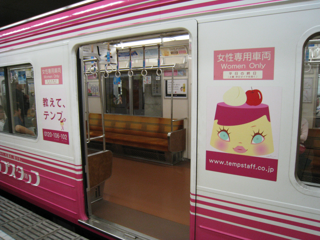 A women-only train car in Japan, to prevent groping of women by male passengers